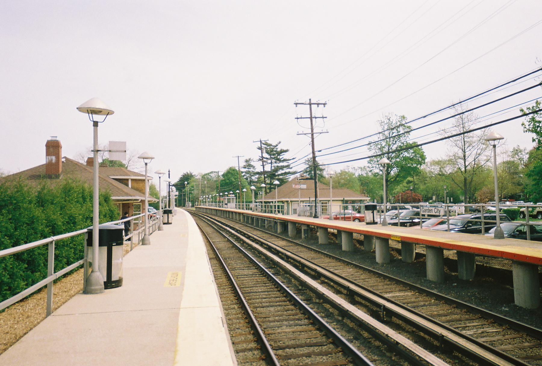 The best view I could get of both station houses at Garden City (LIRR station) in Garden City, New York.